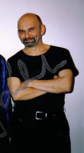 Actor Mariusz Czajka.